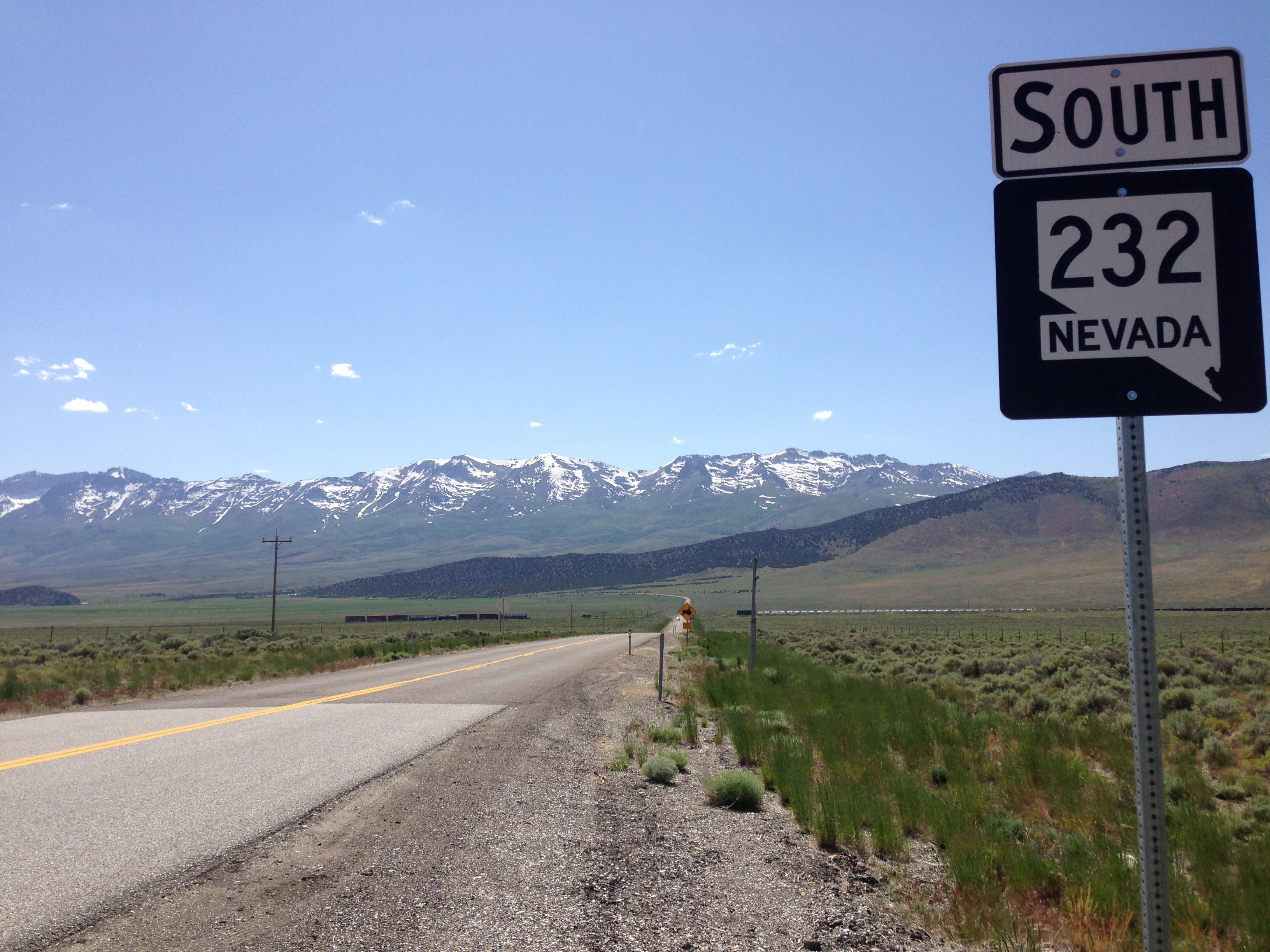 First reassurance sign along southbound Nevada State Route 232 (Clover Valley Road) in Clover Valley, Nevada